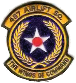 Emblem of the USAF 457th Airlift Squadron